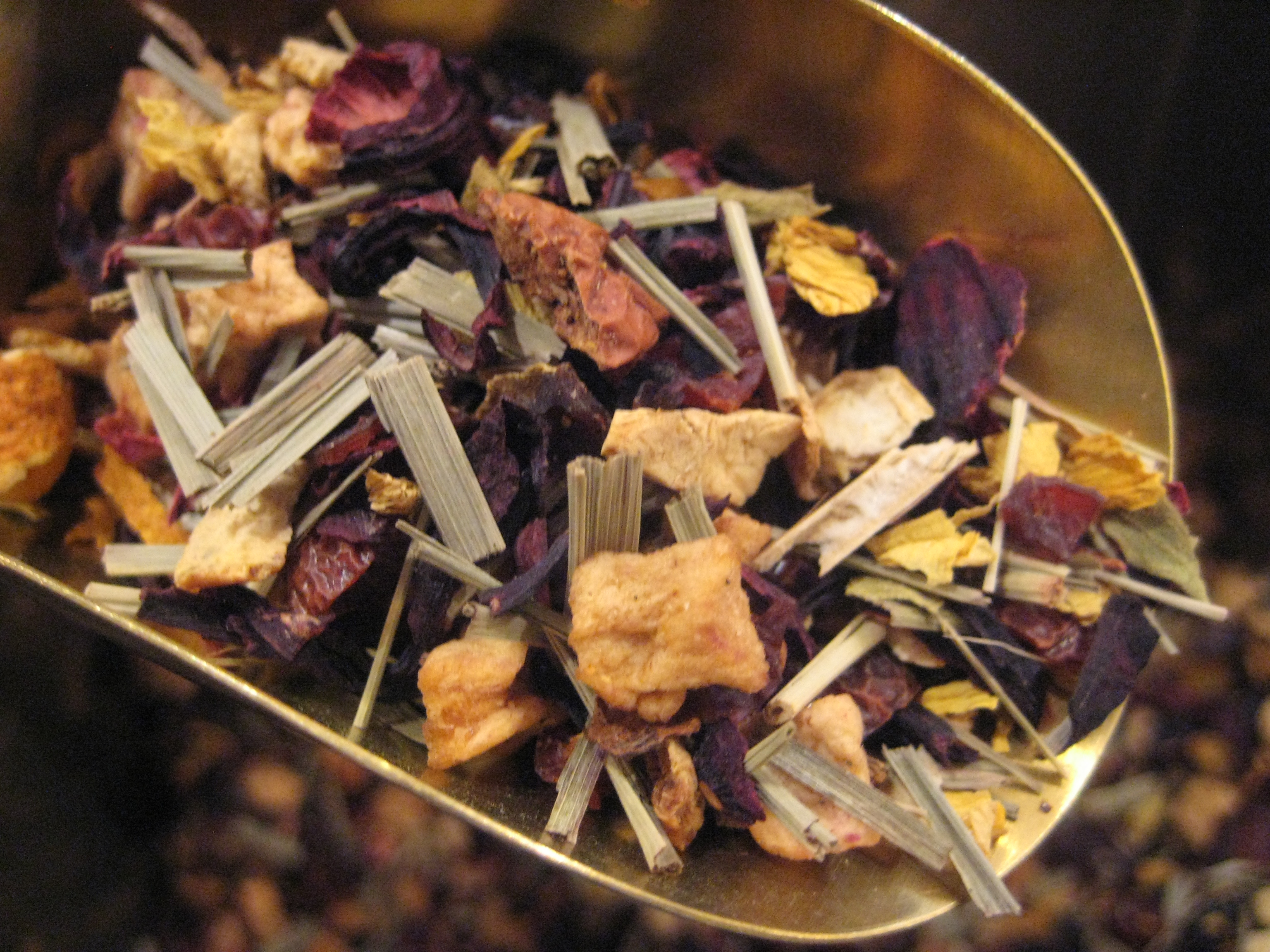 Apple pieces, rose hips, orange peel, papaya pieces, peppermint leaves, licorice root, lemon grass, cinnamon, black currants, rose and mallow blossoms.